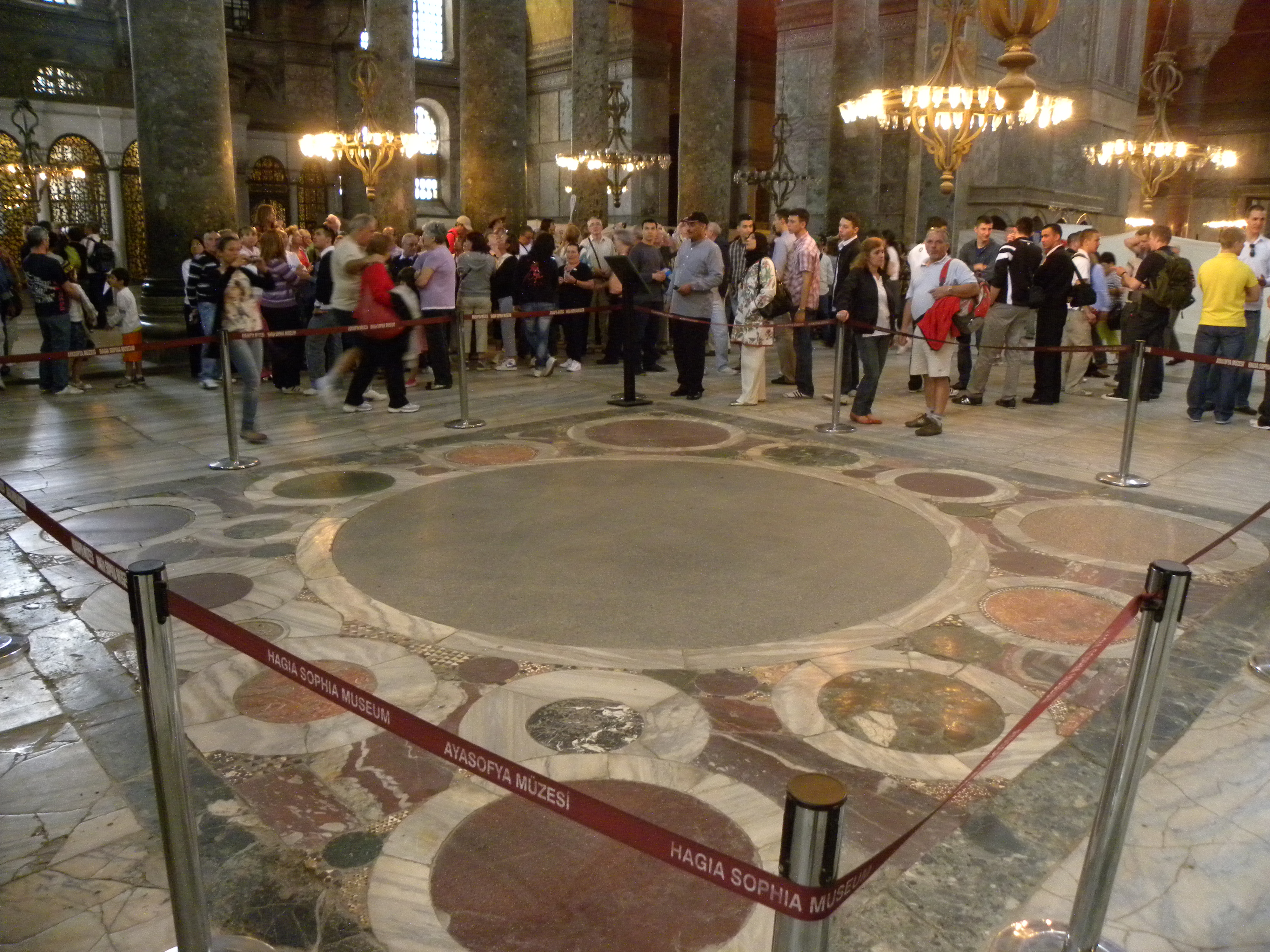 Marble pavement in the church of Hagia Sophia, Istanbul. This is the spot on which Byzantine emperors were crowned.